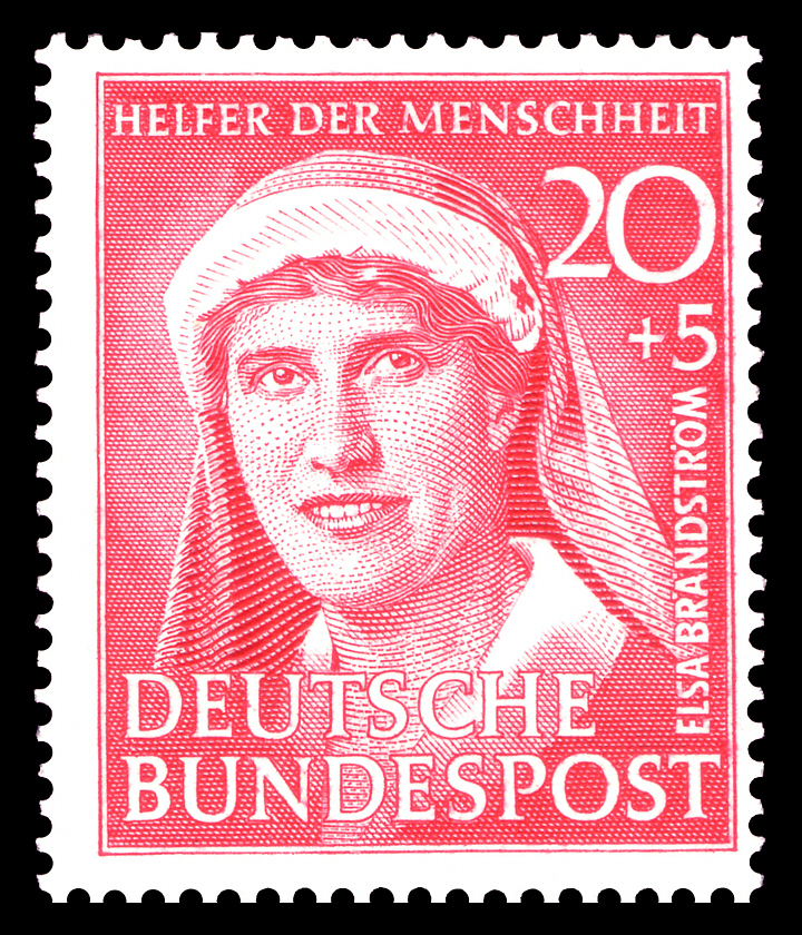 Social welfare stamp series 1951, Elsa Brandström (1888-1948) Graphics by Hermann Zapf Ausgabepreis: 20+5 Pfennig First Day of Issue / Erstausgabetag: 23. Oktober 1951 Michel-Katalog-Nr: 145